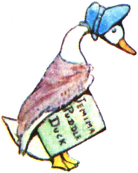 Inside cover image from works of Beatrix Potter